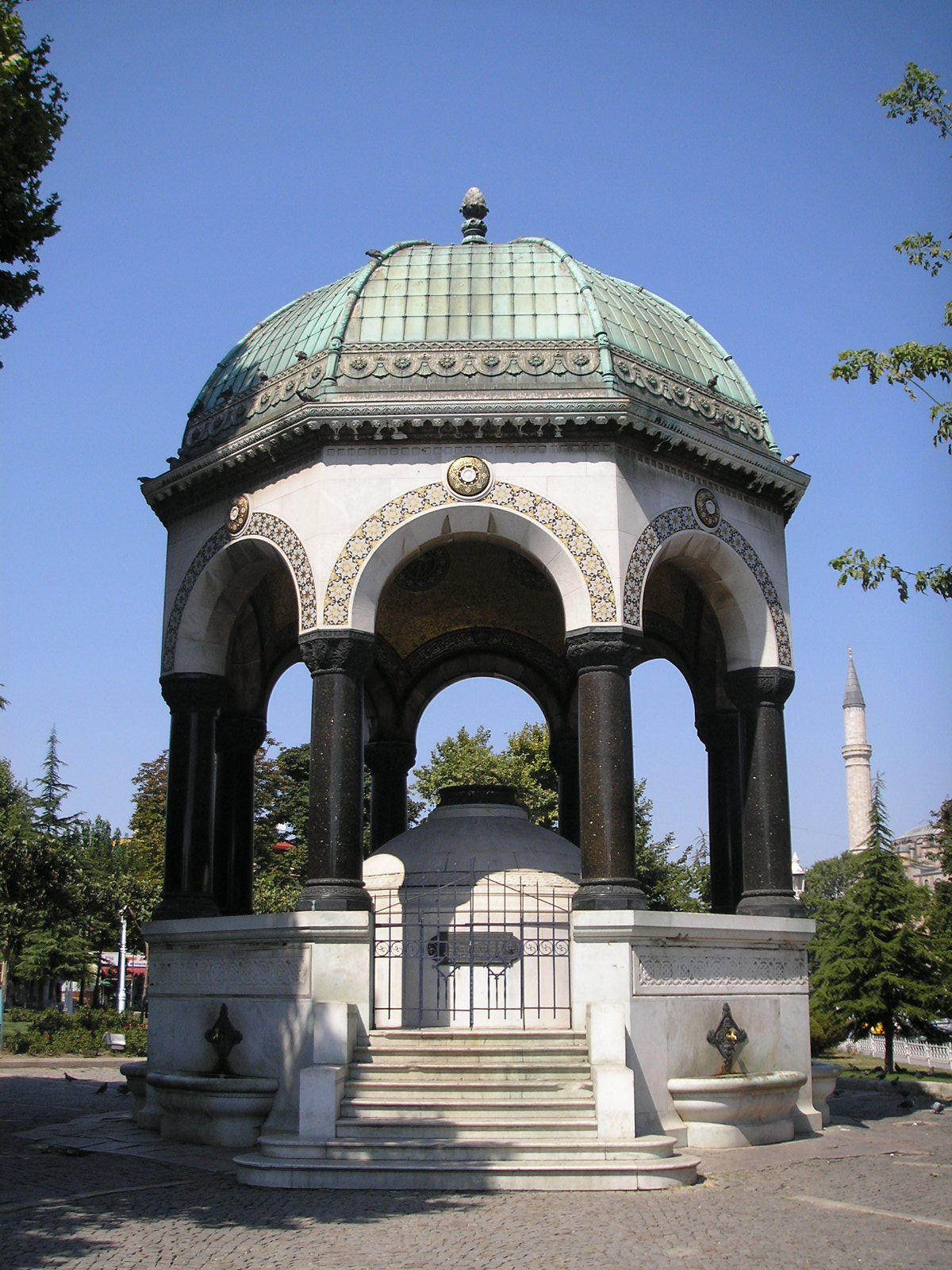 The German Fountain at the Hippodrome of Constantinople, set up to commemorate the visit of German Emperor Wilhelm II.